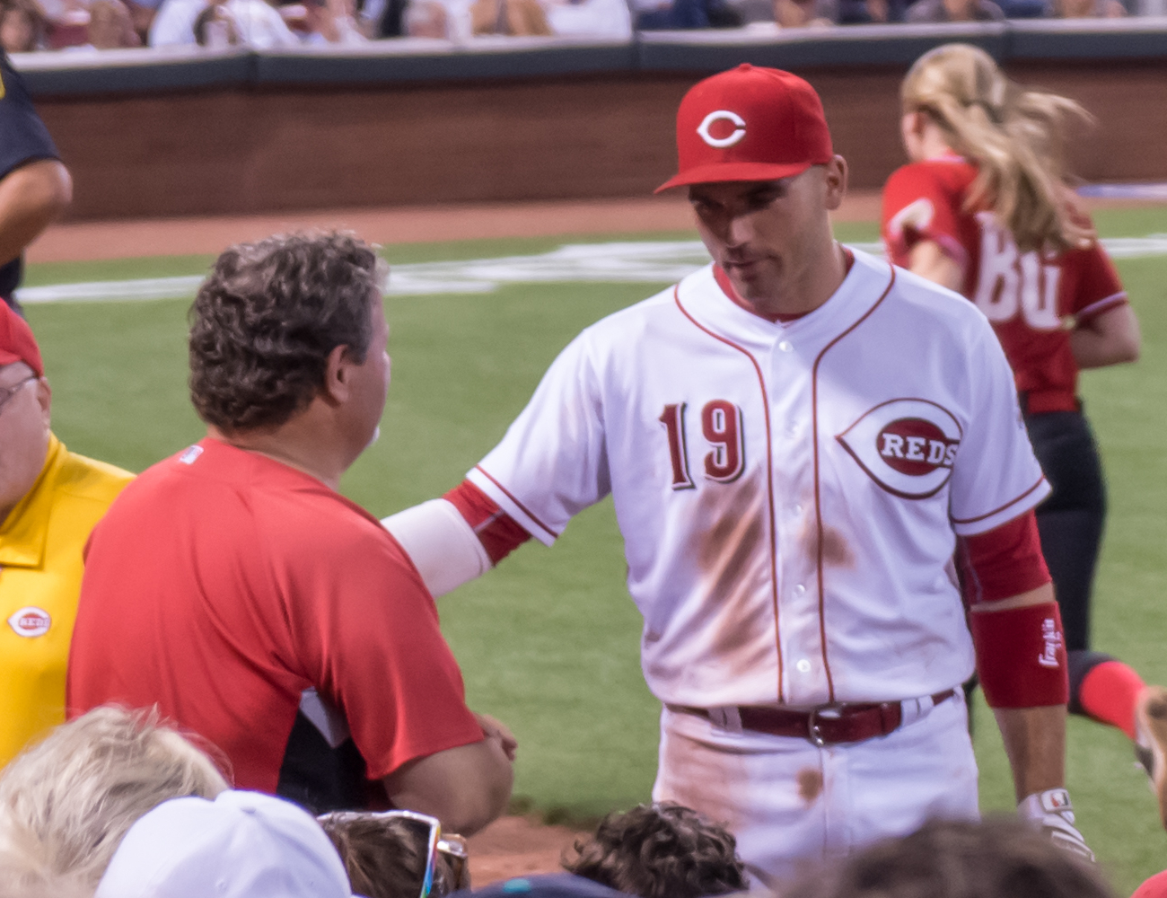 Joey Votto (right)